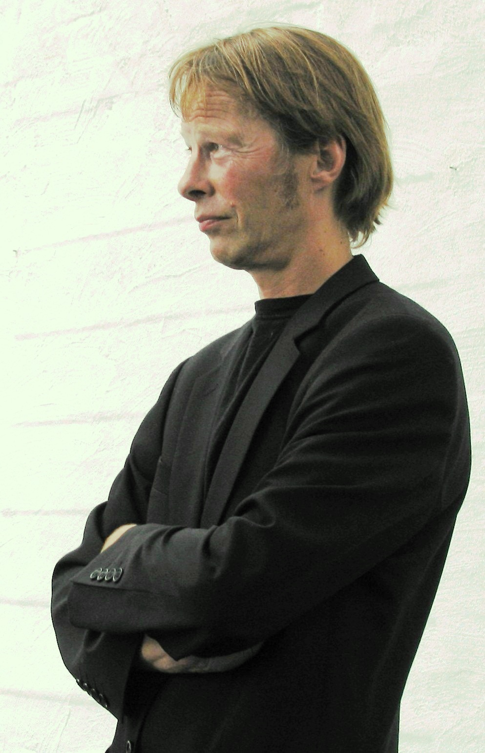 Finnish sculptor Pekka Jylhä